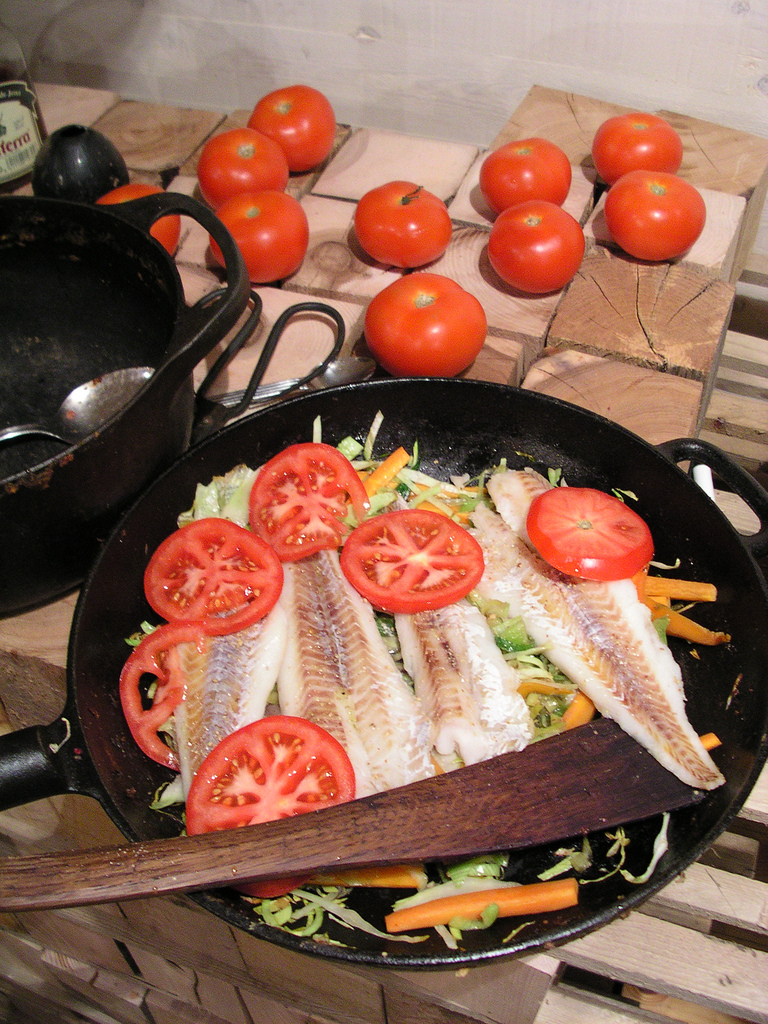 A delicious-looking mealPaleo food